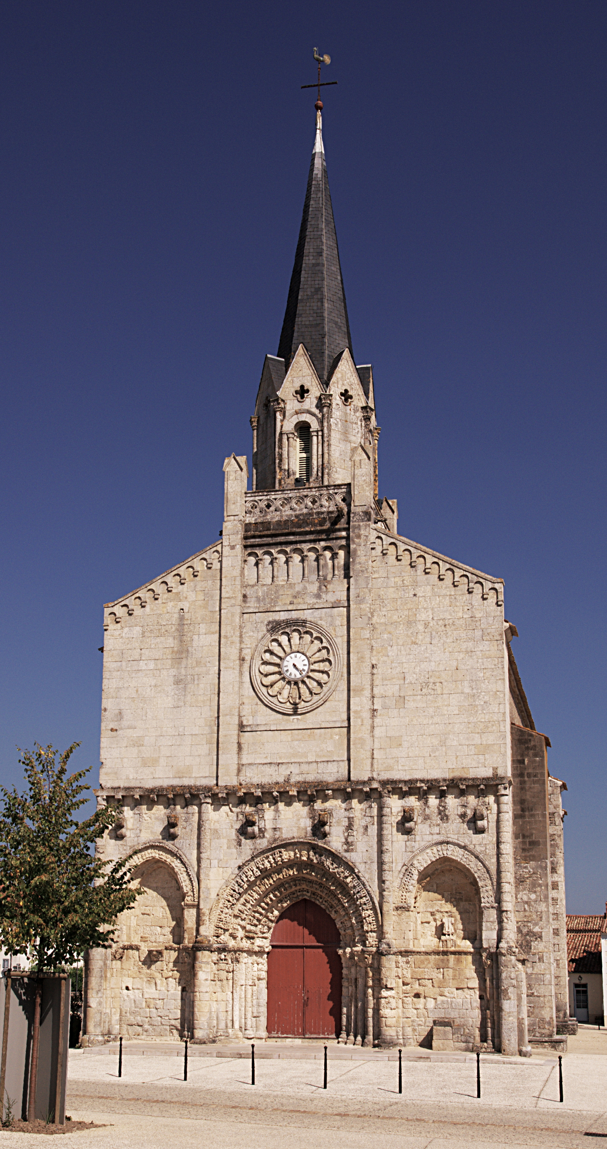 Notre-Dame de l'Assomption' church of Maillé in Vendée.